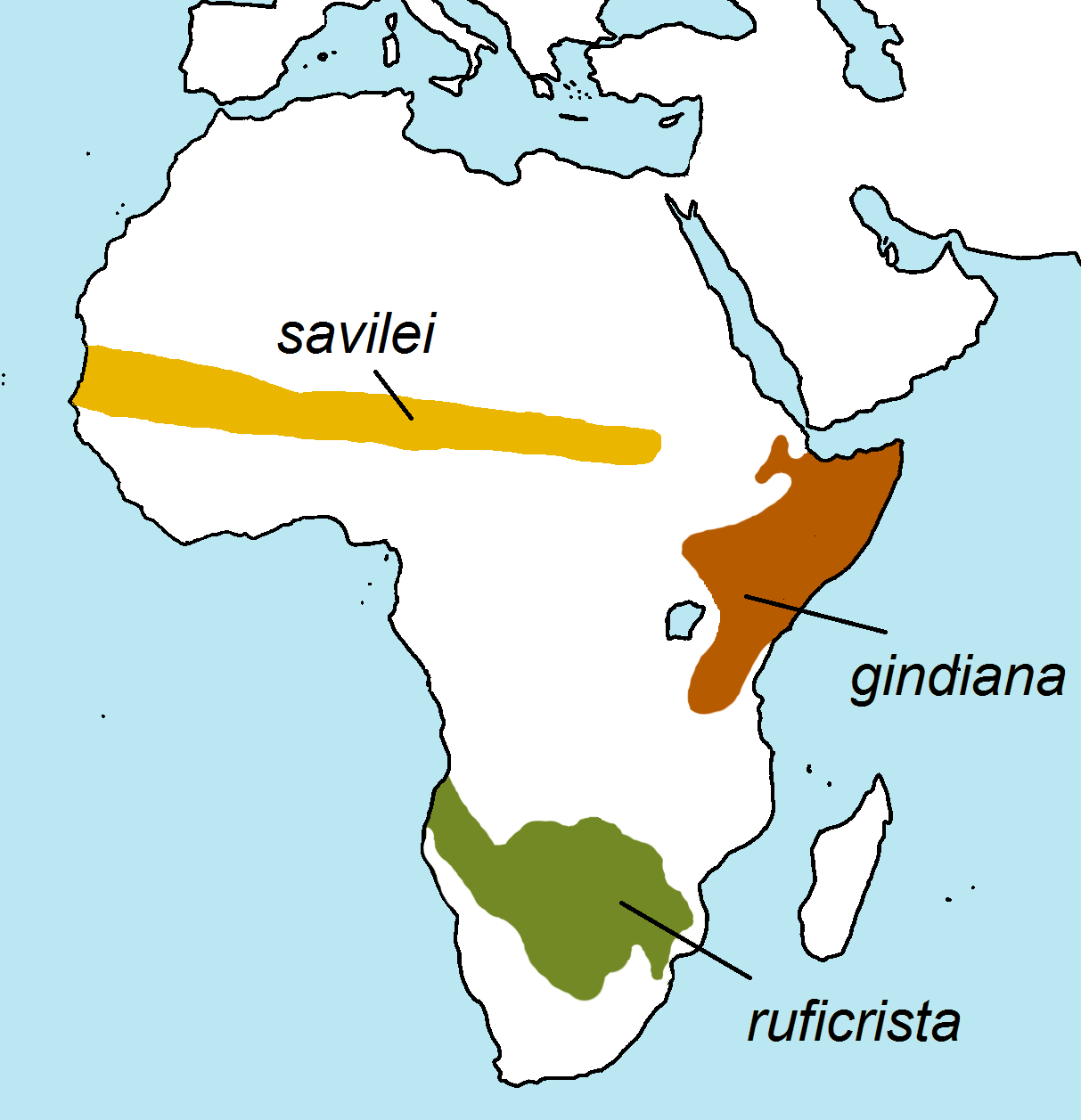 Range map of the three species of the genus Lophotis (Bustards)